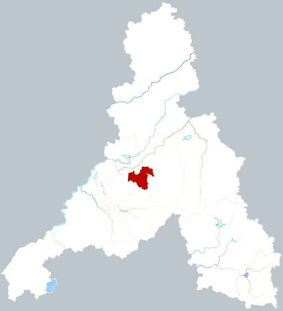 Location of Lixia district in Jinan City, China